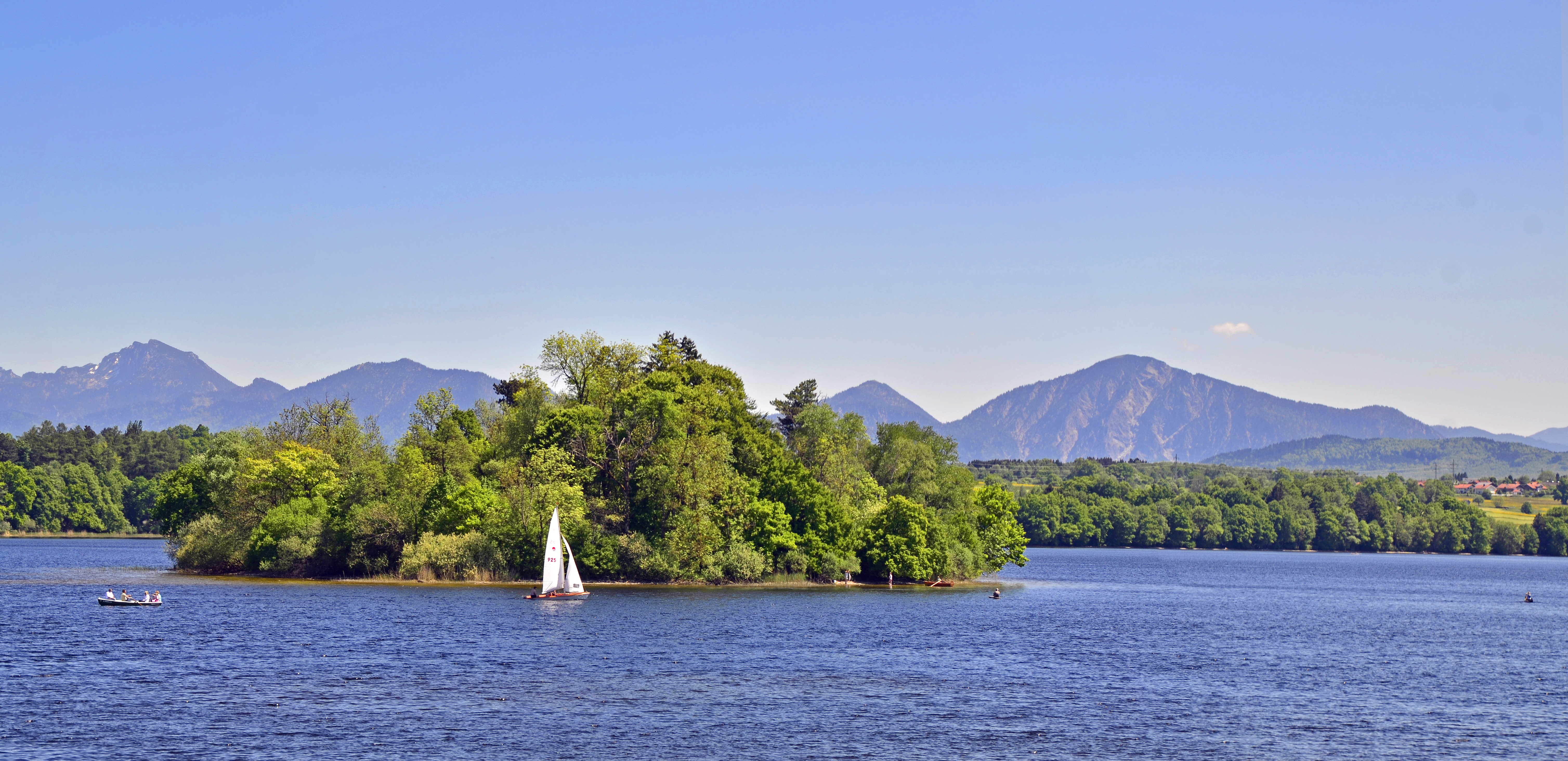 Staffelsee (Insel Mühlwörth) near Uffing am Staffelsee, Spring time, Panorama